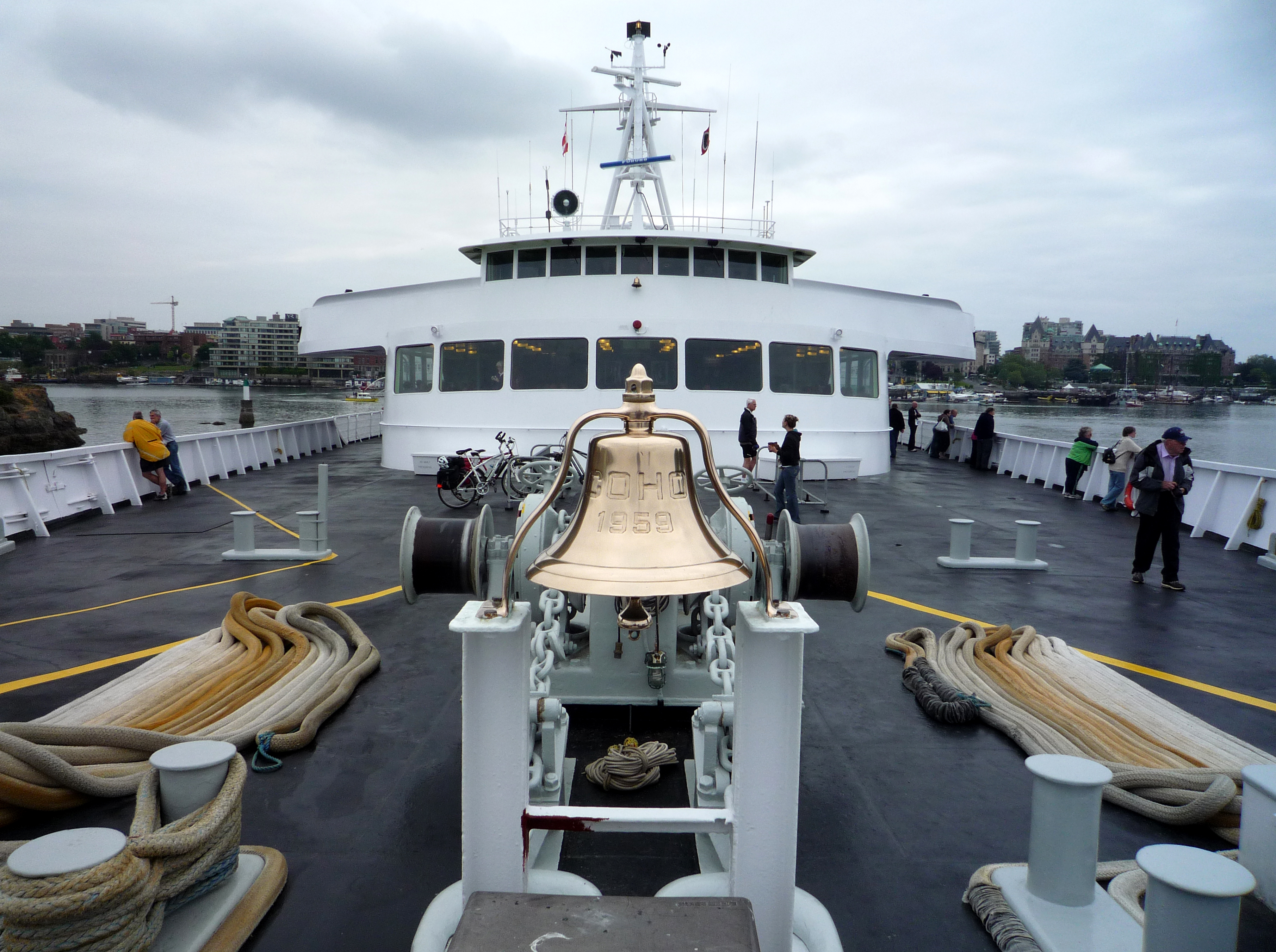 The bridge of the MV Coho (looking back from the bow), a car ferry that serves the international crossing between, Victoria, British Columbia, Canada and Port Angeles, Washington, USA.